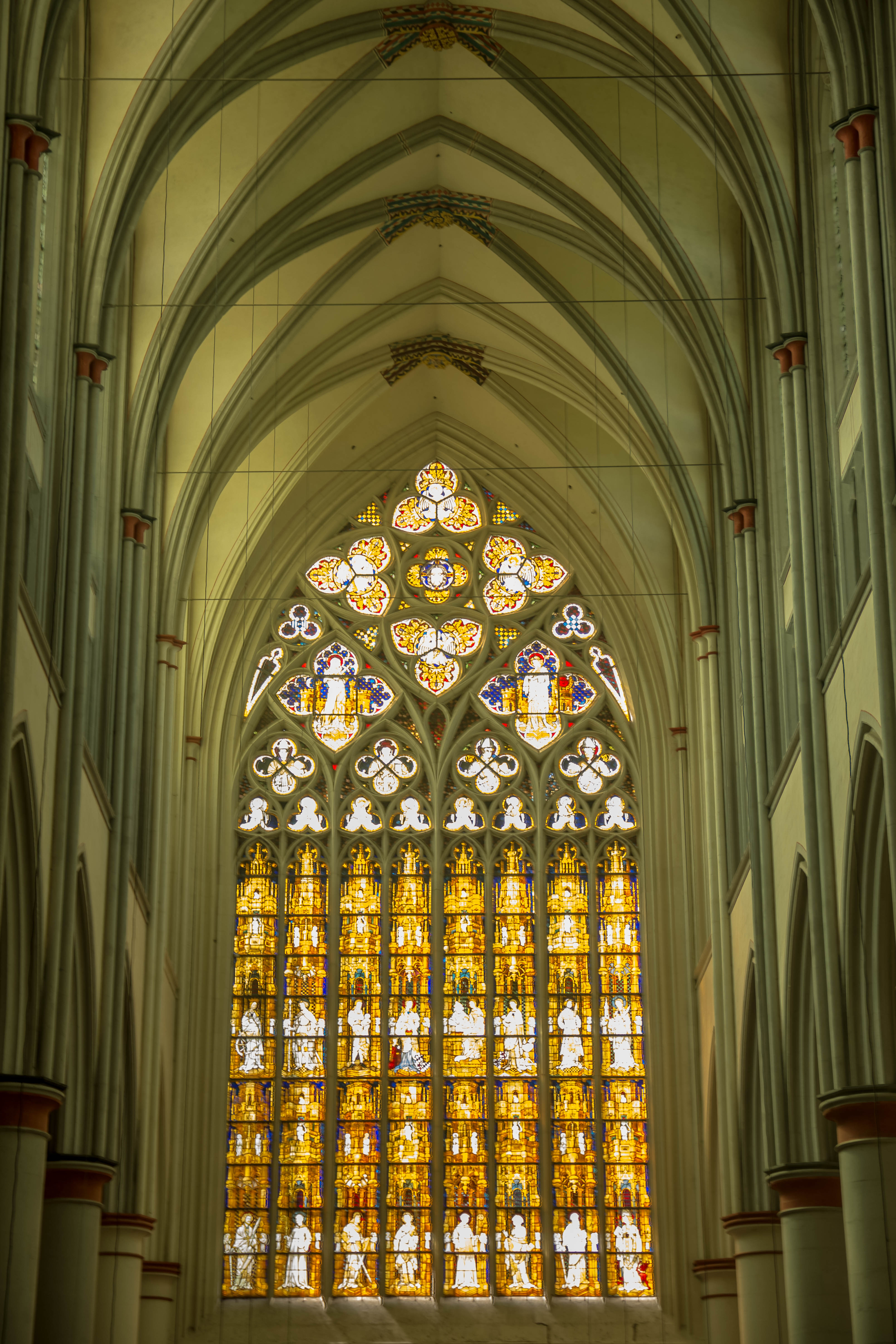 West window of Altenberger DomThis is a photograph of an architectural monument., no. 36